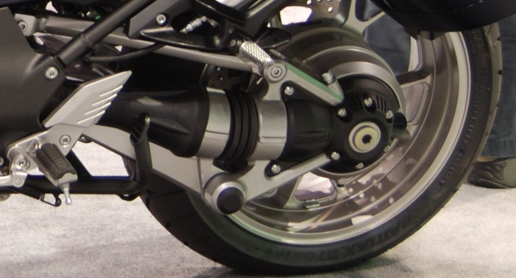 2010 Kawasaki Concours 14 at the 2009 Seattle International Motorcycle Show - Tetralever detail